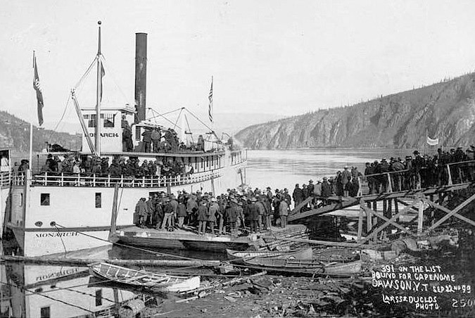 People leaving Klondike for Nome Sep. 22nd 1899 down Yukon